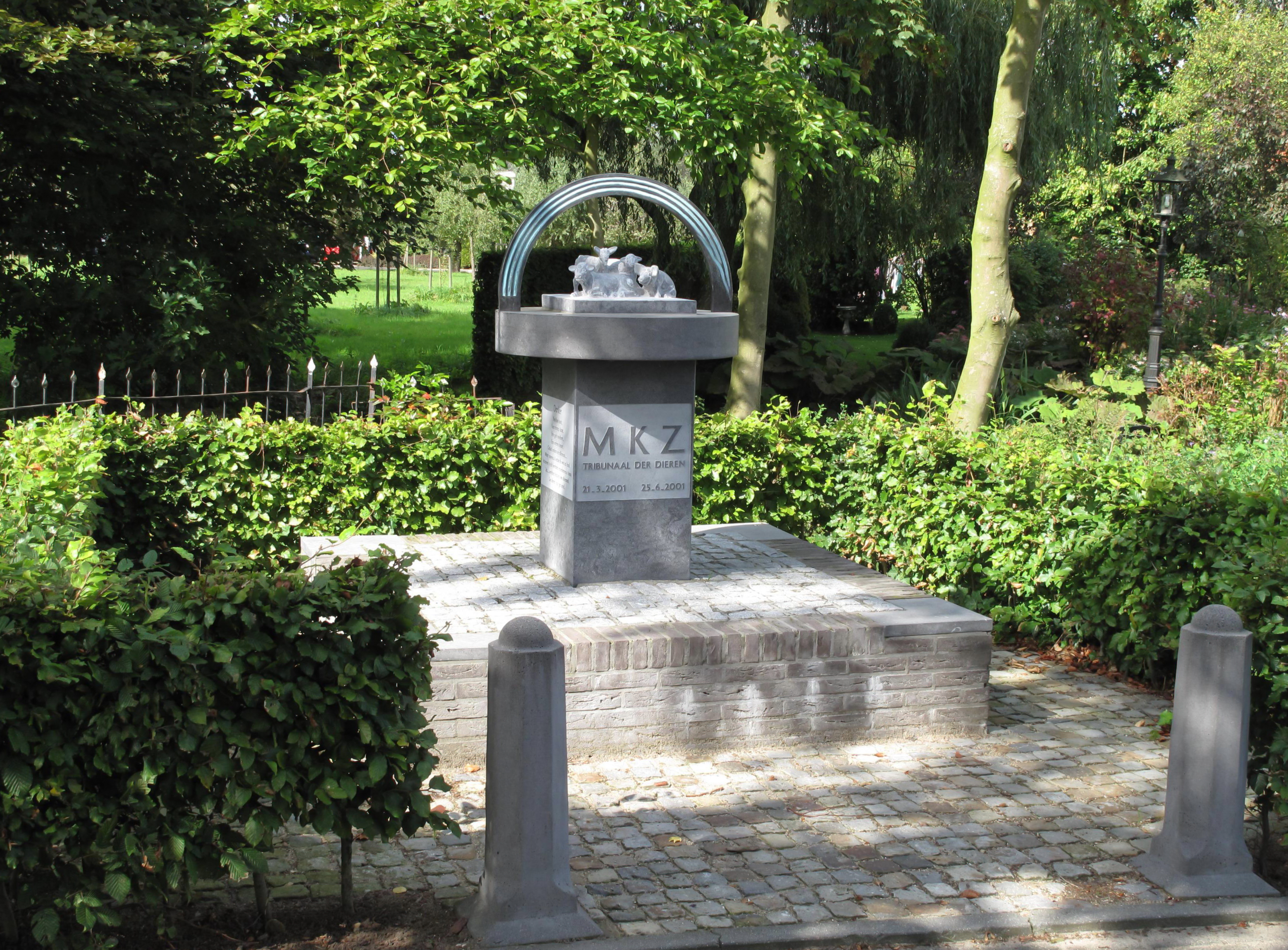 Nijbroek, monument remembering the Foot-and-mouth disease outbreak in 2001. Sculptor: Hans van Coevorden; unveiled in October 2002